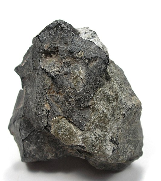 Arsenic Locality: Alder Island, Queen Charlotte Islands, Skeena Mining Division, British Columbia, Canada (Locality at ) This specimen is actually fairly well-crystallized for what it is, which is a solid chunk of native arsenic! Ex. Gene Meieran elements collection. It weighs about 140 grams and again, you just do not usually see arsenic in such large, chunky crystals. 5.1 x 4.5 x 2.6 cm